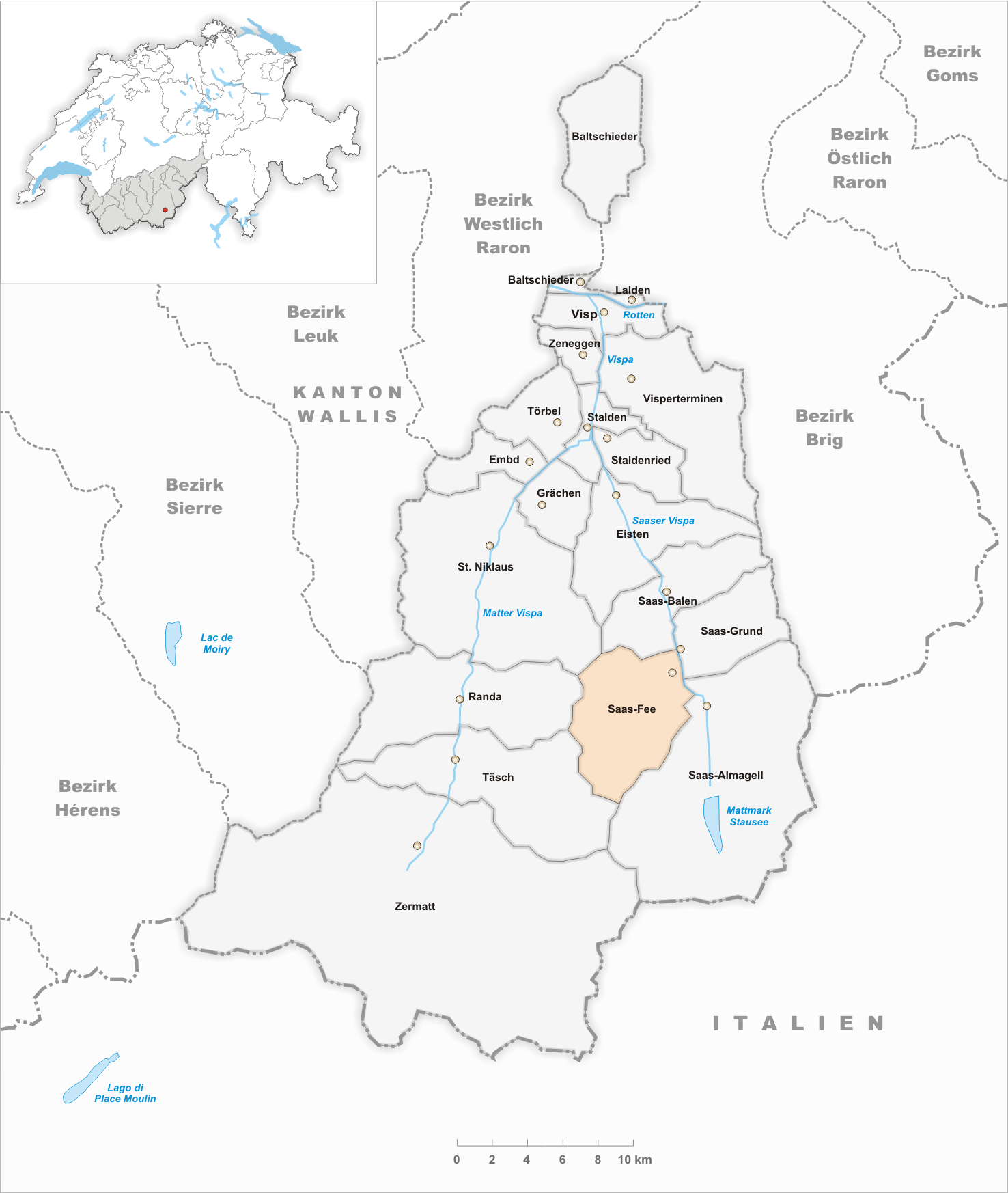 Municipality Saas Fee